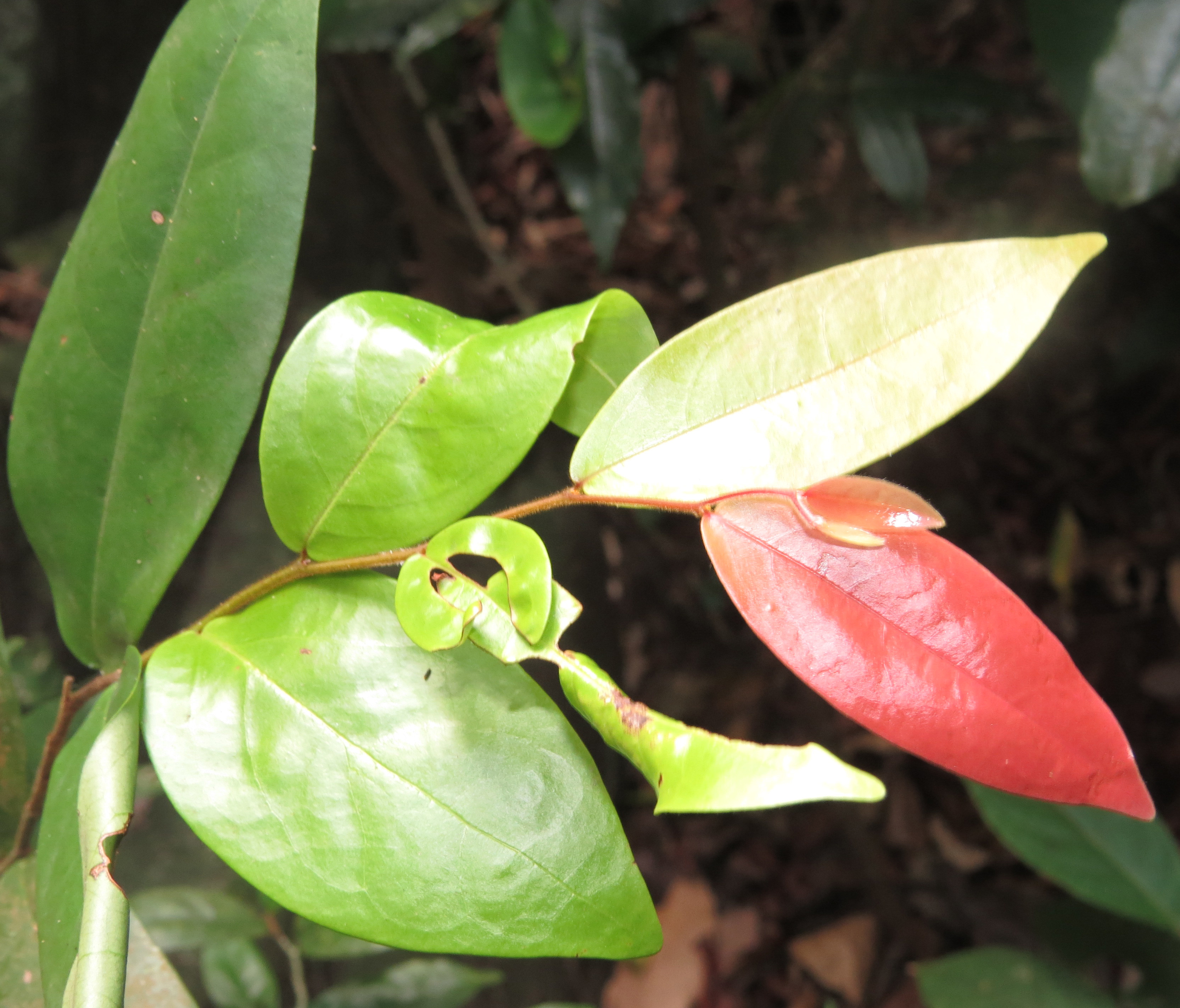 Orophea malabarica